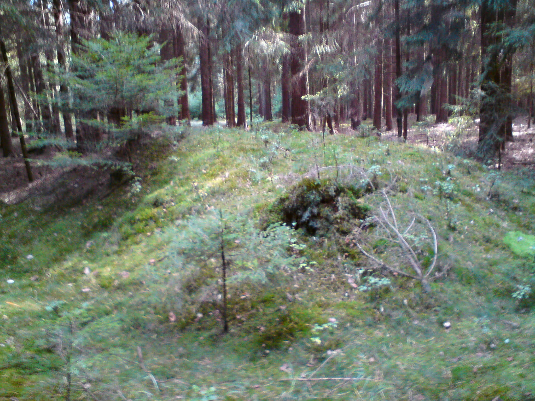 Early medieval (7/8th century AD) Slavic tumuli on eastern slopes of the Vávra hill near village of Červený Újezdec, České Budějovice District, South Bohemian Region, Czech Republic